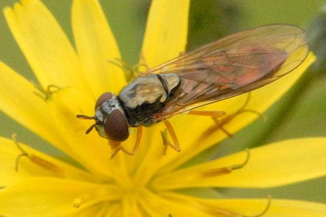 Platycheirus clypeatus from Commanster, Belgian High Ardennes .